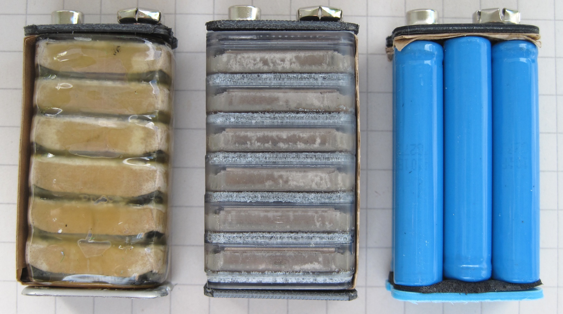 Three different types of 9 Volt battery internals. All consist of 6 cells.